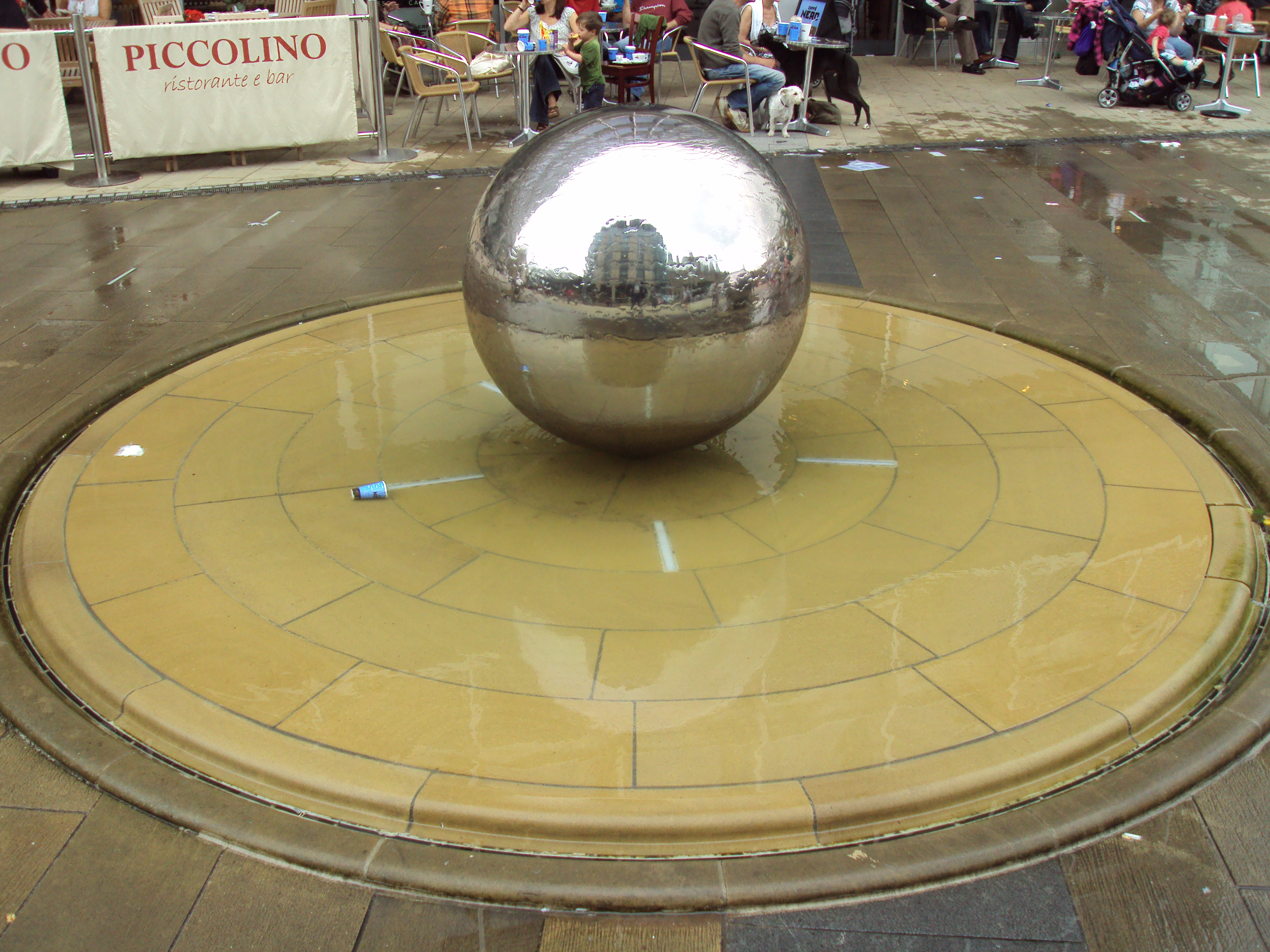 Stainless steel sphere at Millennium Square, Sheffield, England.